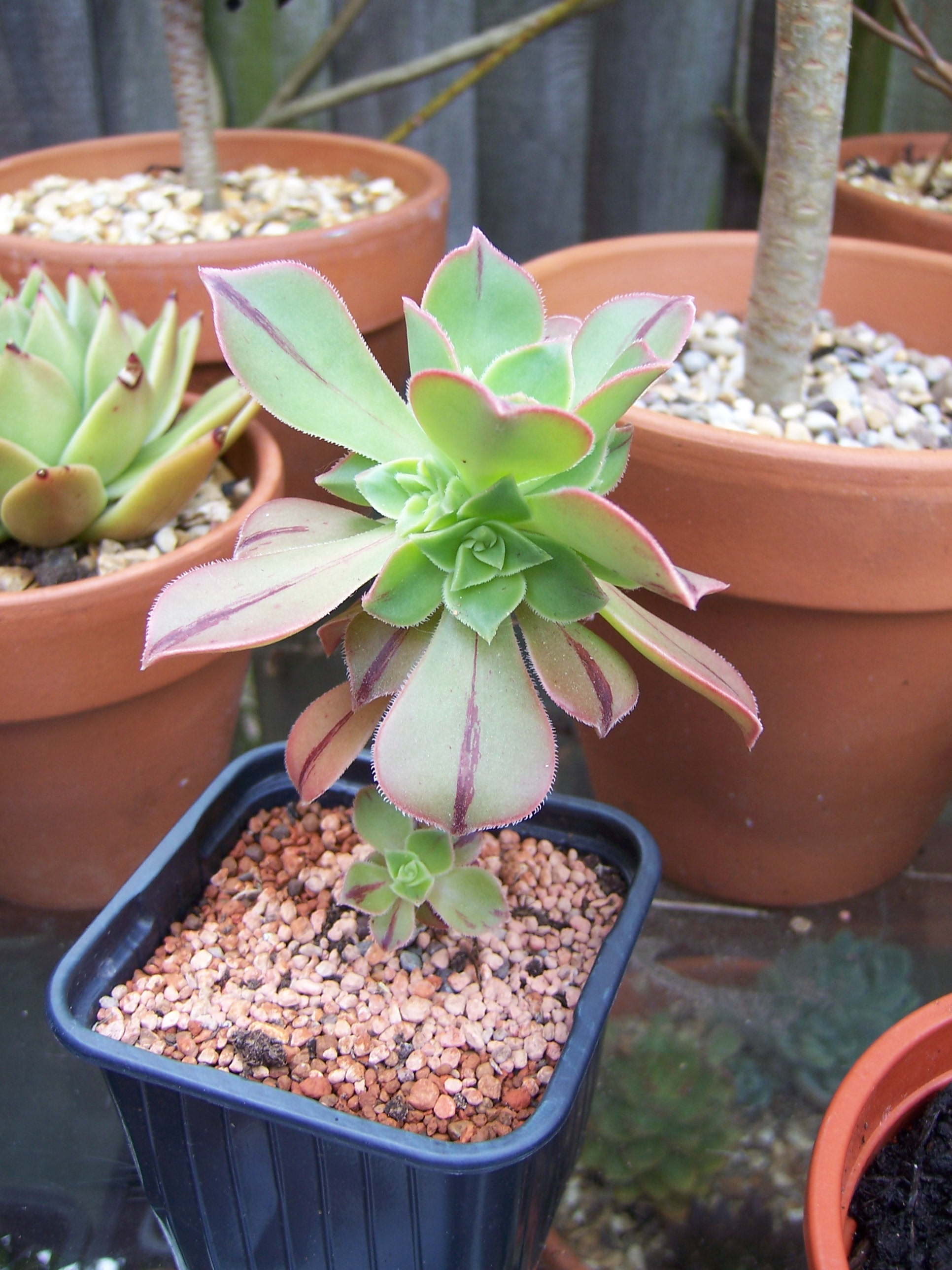 Aeonium Leucoblepharum - Cutting